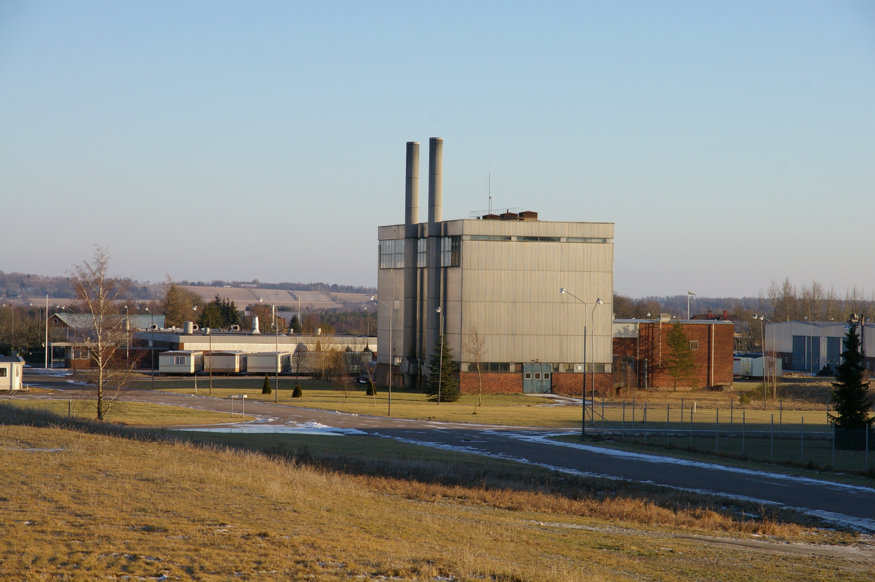 Closed down processing plant for Ranstad uranium mine Sweden.